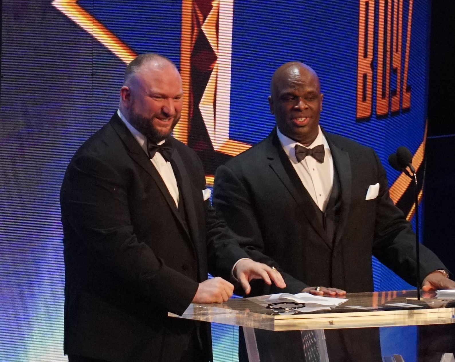 Bubba Ray (left) and D-Von Dudley being inducted into the WWE Hall of Fame, class of 2018.